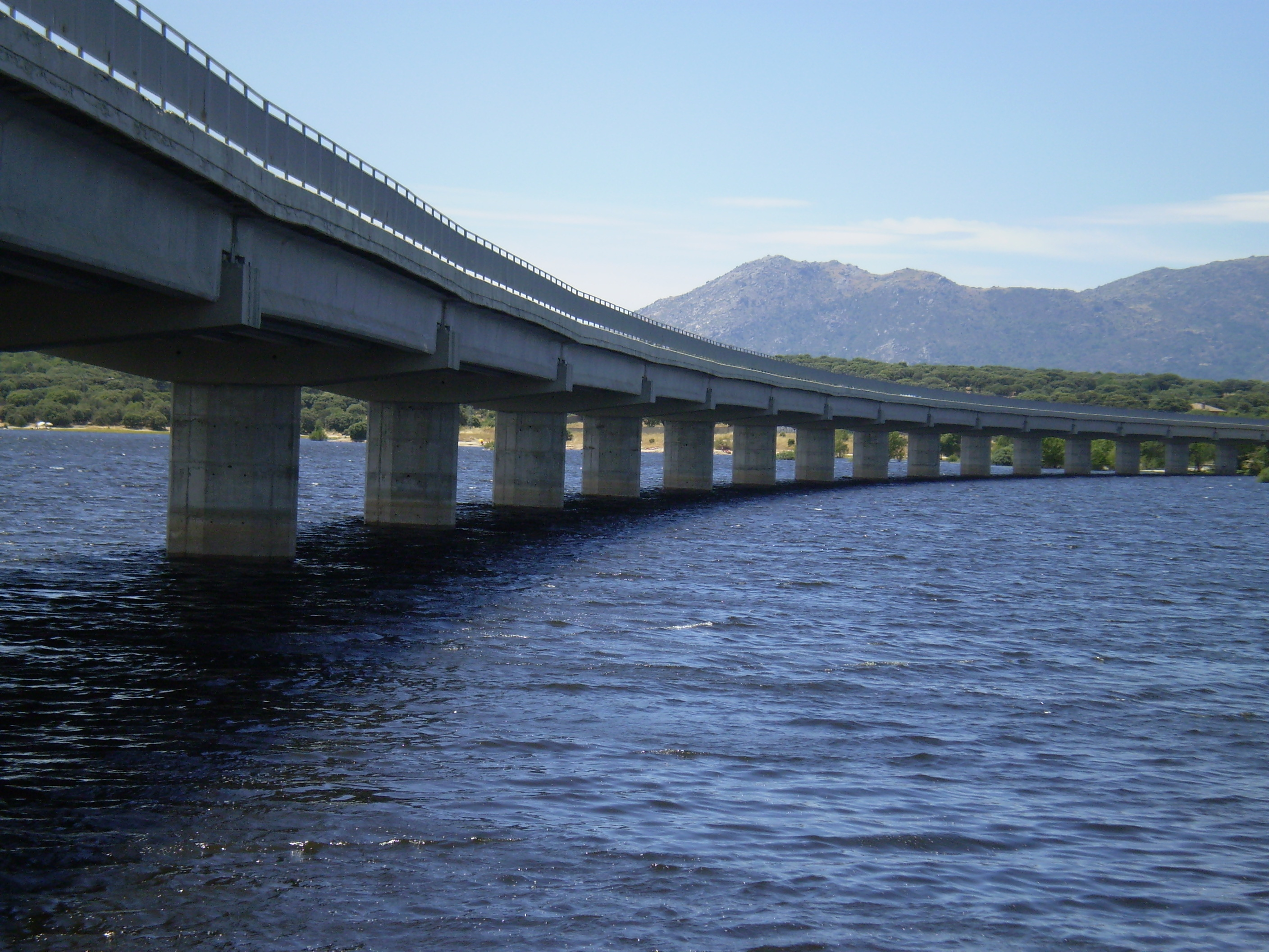 Valmayor Reservoir. Community of Madrid, Spain